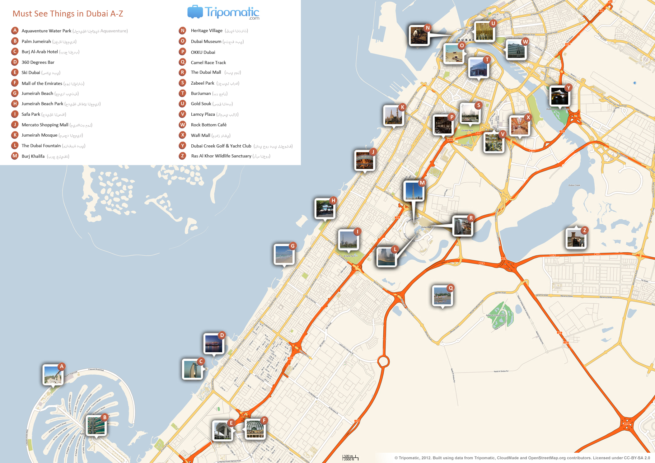 Printable tourist map showing the main attractions of Dubai